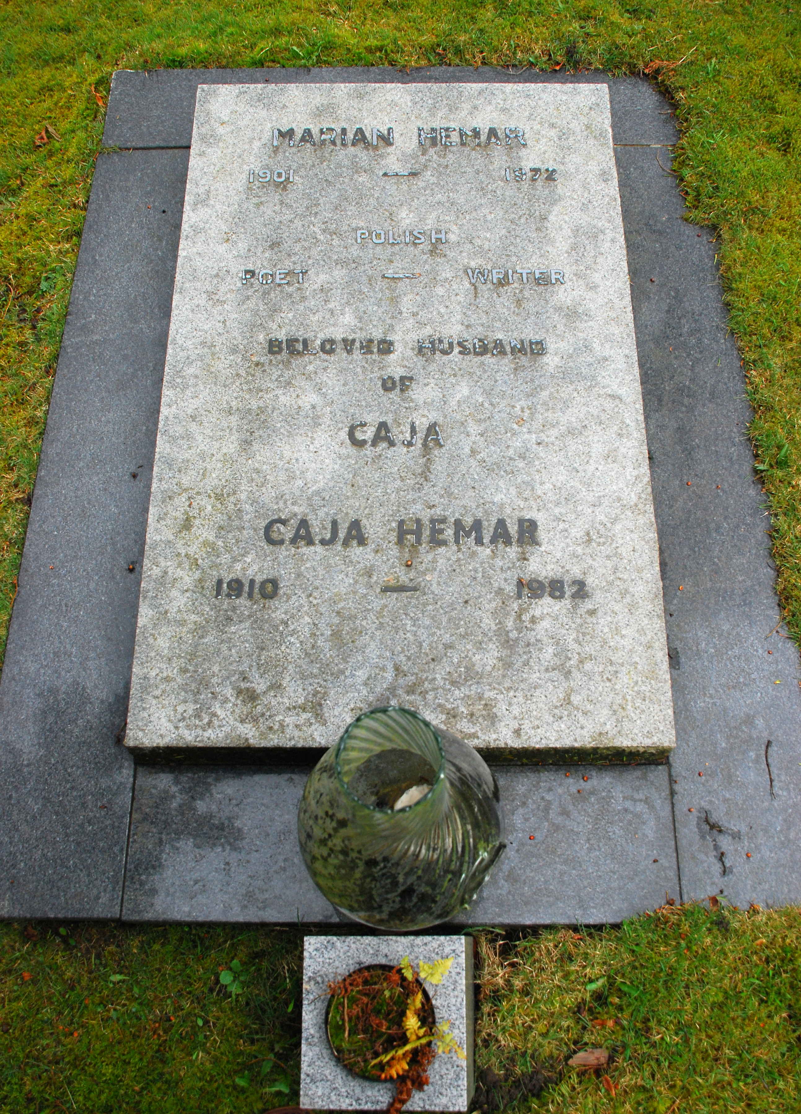 Grave of the poet and writer Marian Hemar and his wife Caja (or Kaji) Hemar in Christ Church parish churchyard, Coldharbour, Capel, Surrey, England